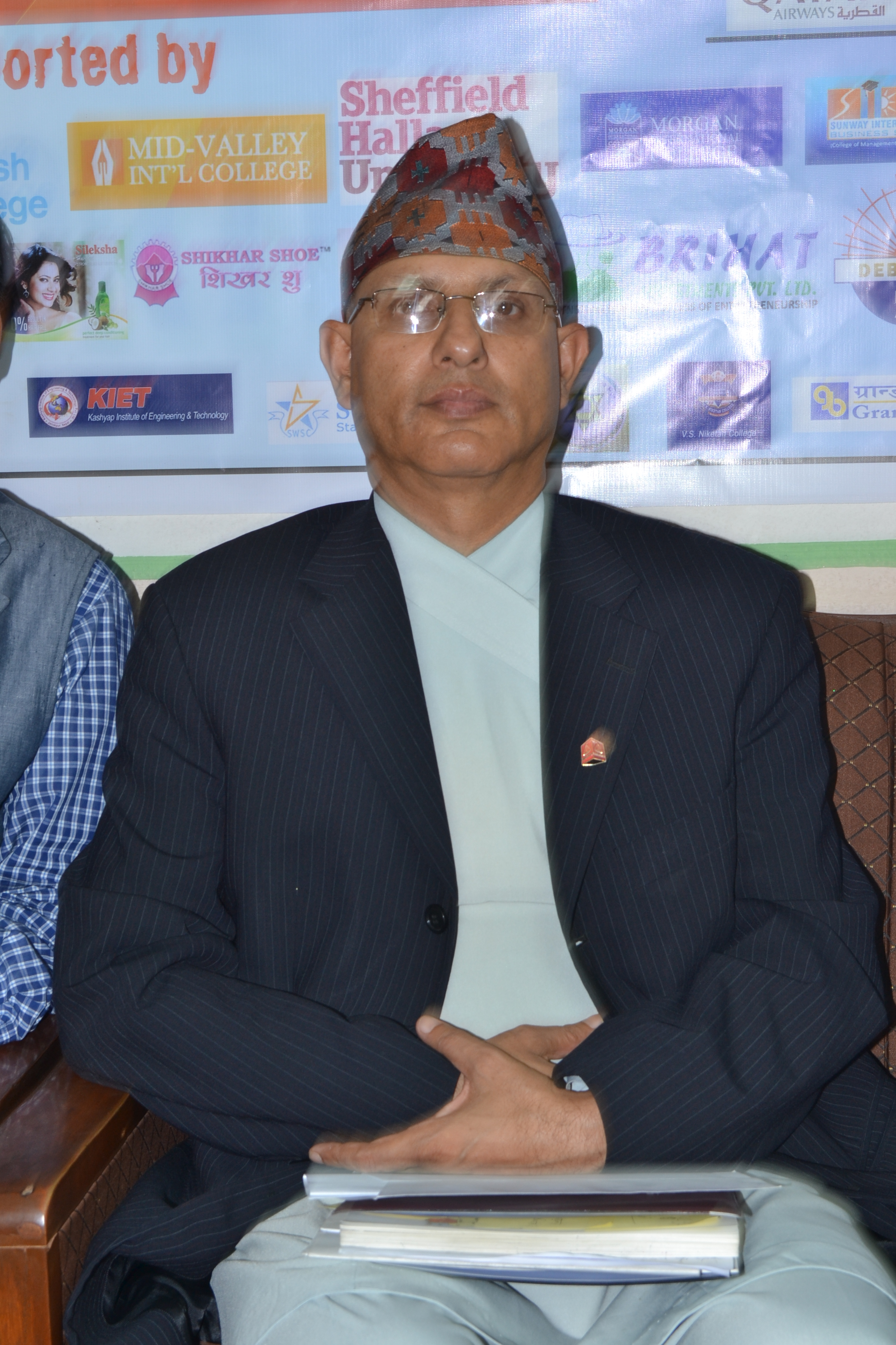 Education and Communication Minister Madhav paudel at Repotsclub